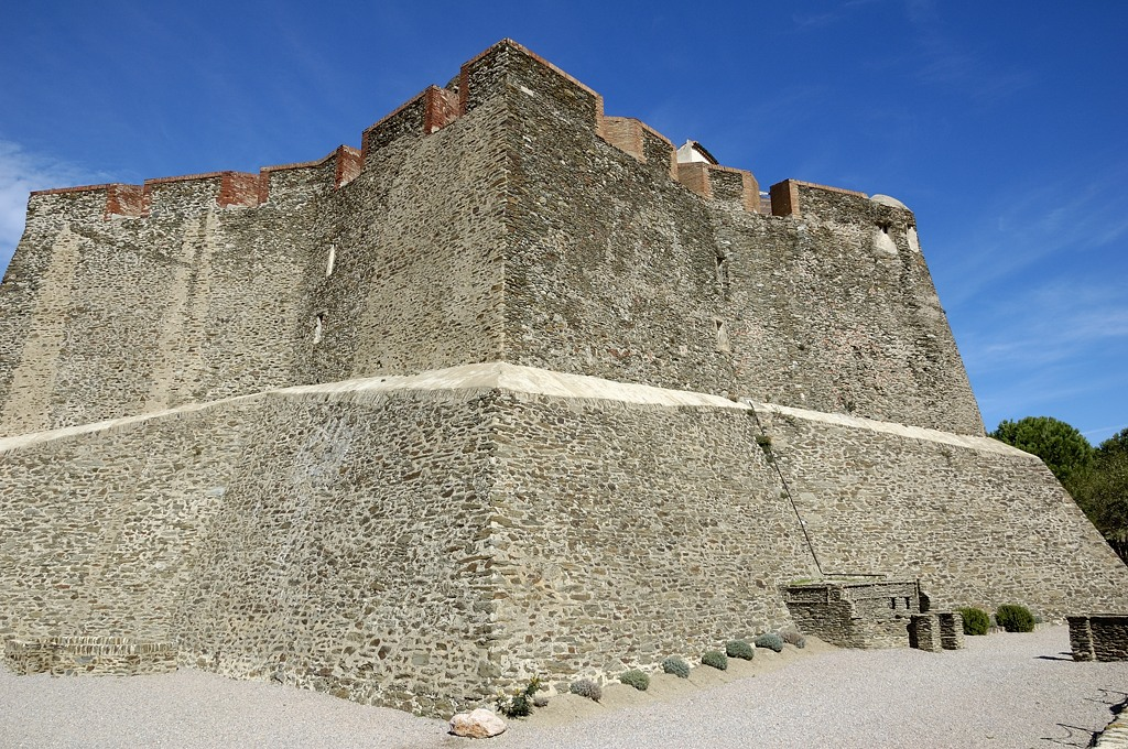 Fort Saint-Elme, Collioure